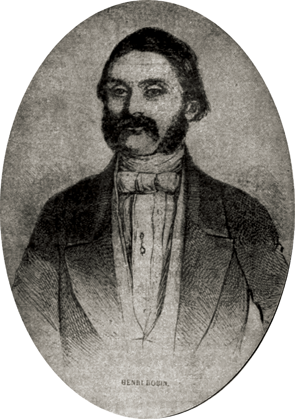 Illustration from The old and the new magic.